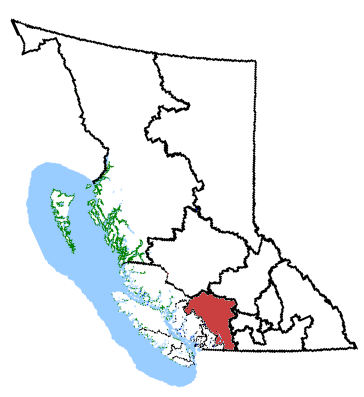 Map of the Chilliwack—Fraser Canyon electoral district. Based on Earl Andrew's maps, created by SimonP.